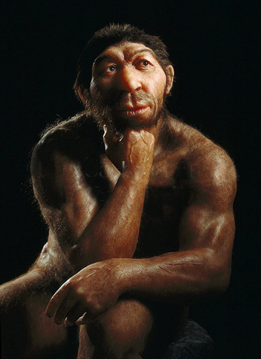 Reconstruction of a Homo neanderthalensis at Landesmuseum für Vorgeschichte Sachsen-Anhalt in Halle, Germany